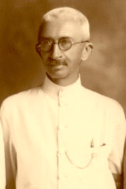 Cornelis Andries Backer in Tosari, Java